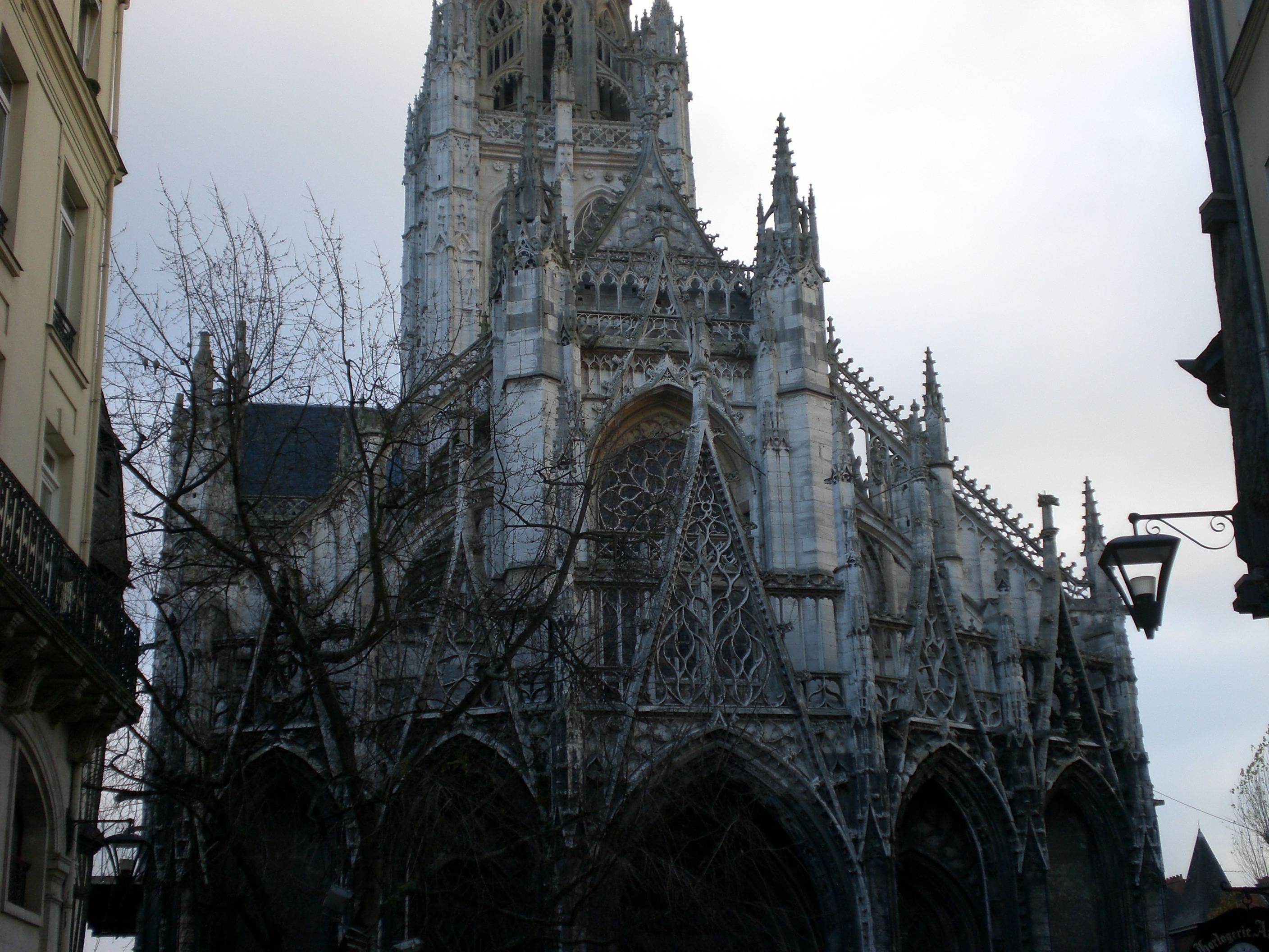 Rouen, Saint-Maclovius's Church, 1436-1520